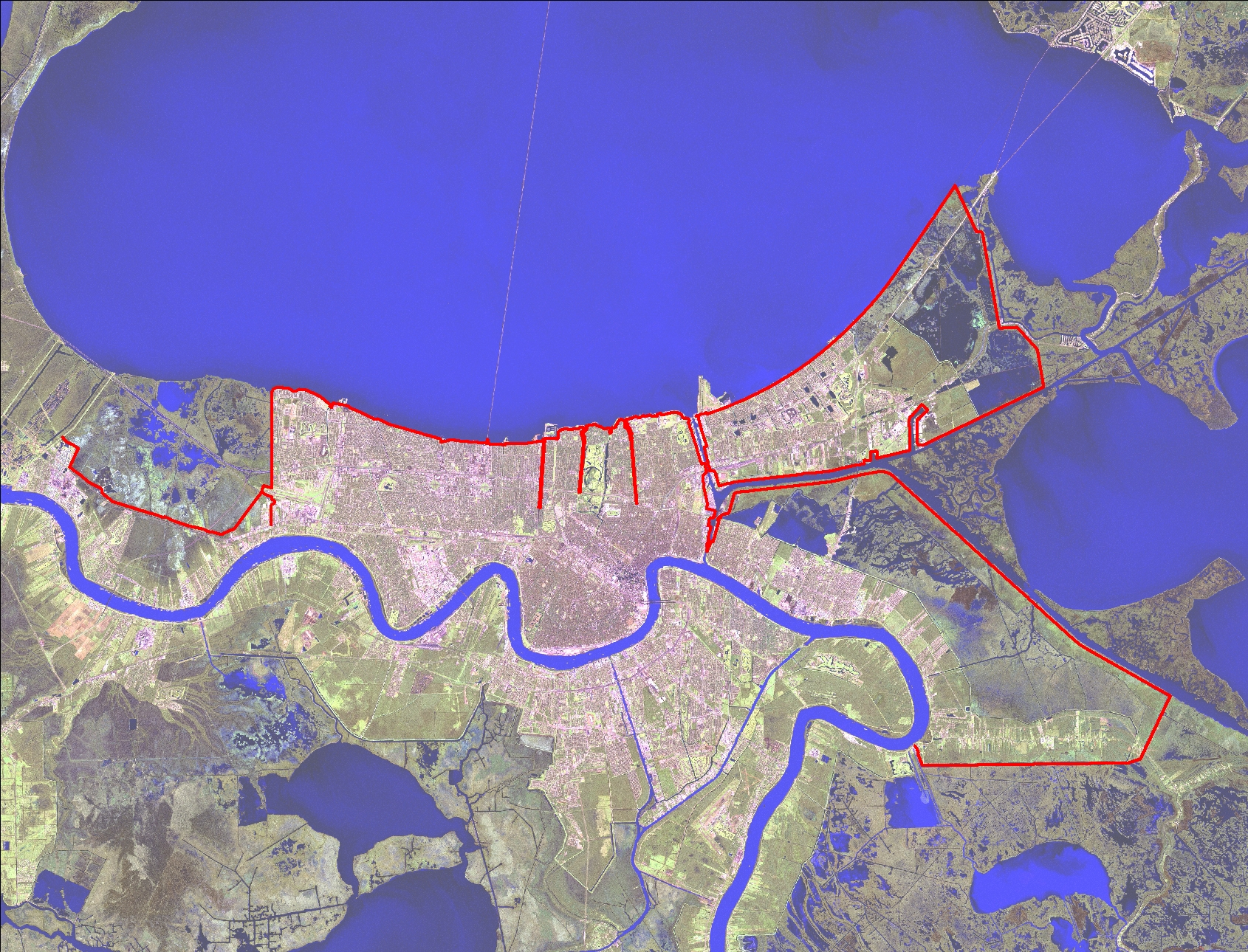 Image courtesy of USACE.